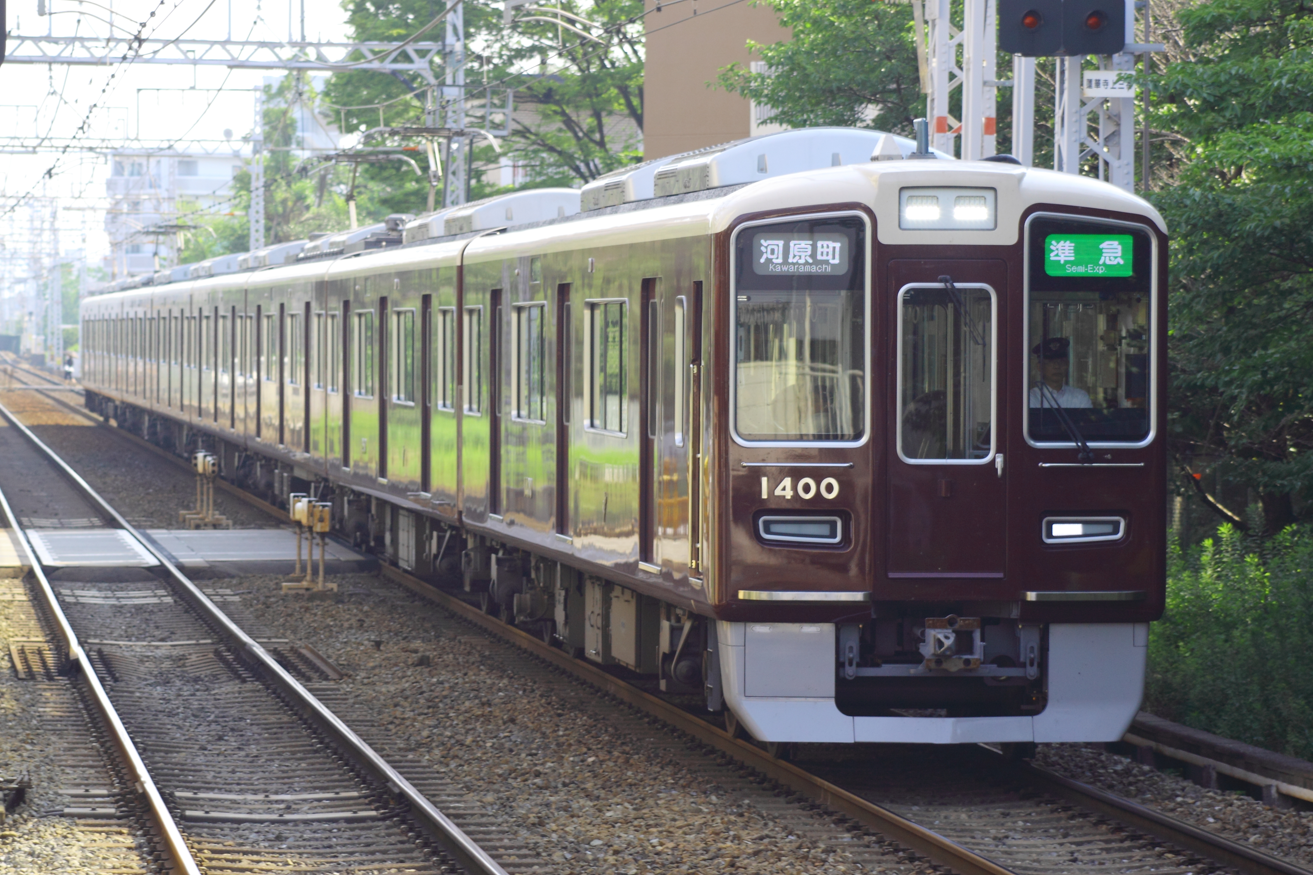 Hankyu 1300 series EMU set 1300 approaching Minami-Ibaraki Station on the Hankyu Kyoto Line